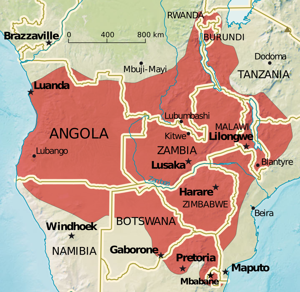 Range of Galago moholi (Mohol Bushbaby)